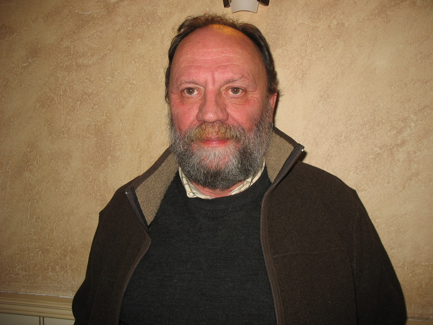 Francisco González Lodeiro (b.1949), spanish geologist, rector of the University of Granada (Spain).